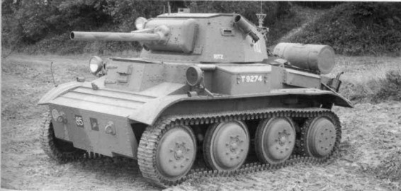 Char Tetrach britannique